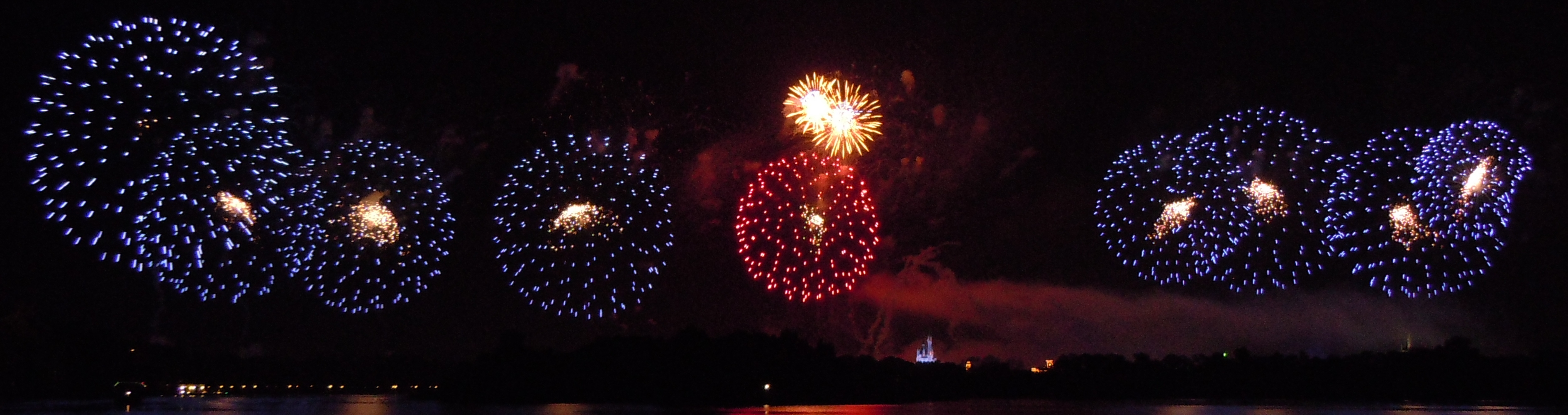 A view of Summer Nightastic Firework Spectacular above the Magic Kingdom from the beach of Disney's Polynesian Resort at the Walt Disney World Resort in Florida, USA.